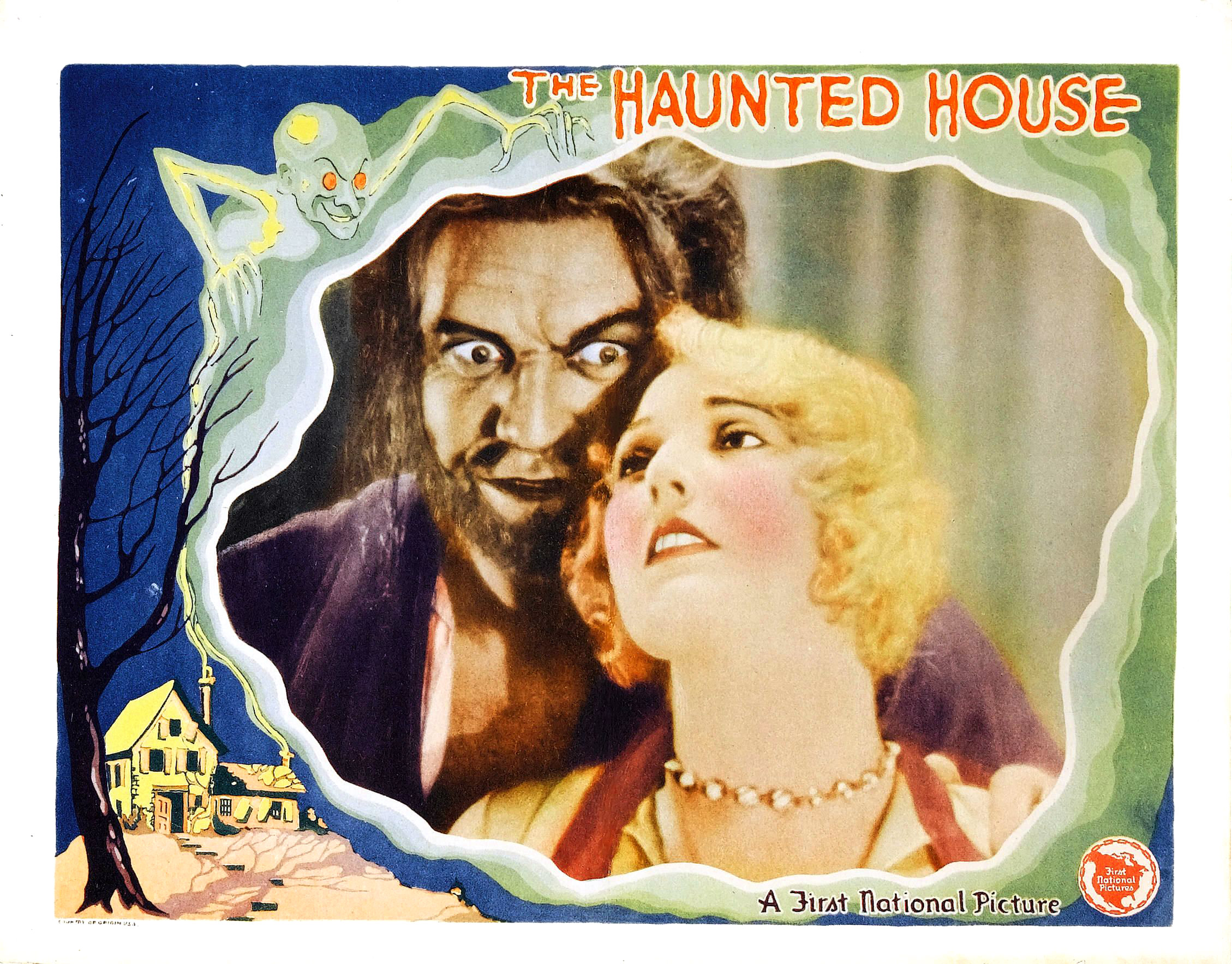 Lobby card for the American comedy drama film The Haunted House (1928).